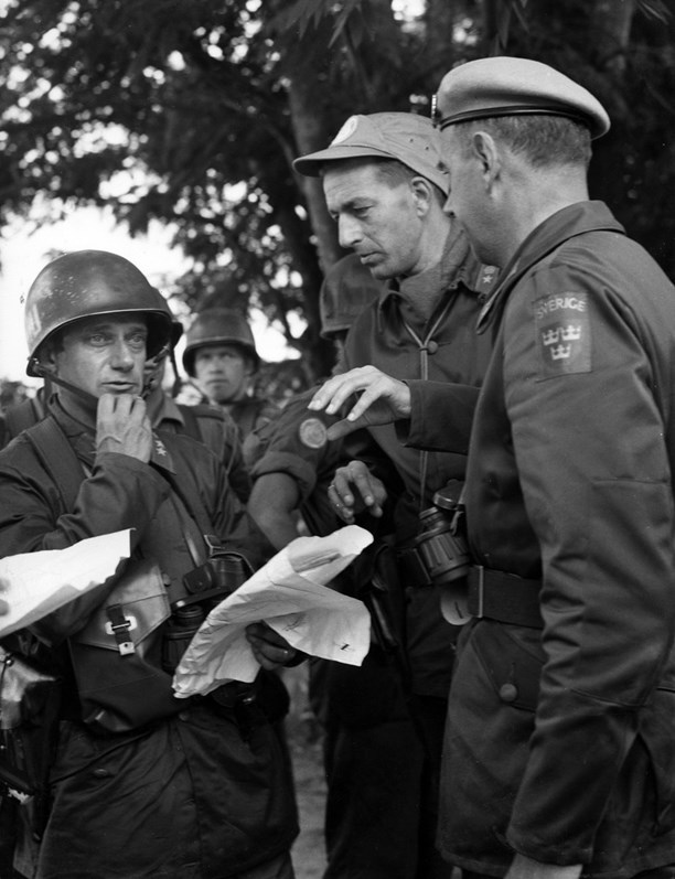 Swedish UN troops in Congo. Major Sture Fagerström, informs his platoon leaders before the attack on Kaminaville in Katanga, Congo.